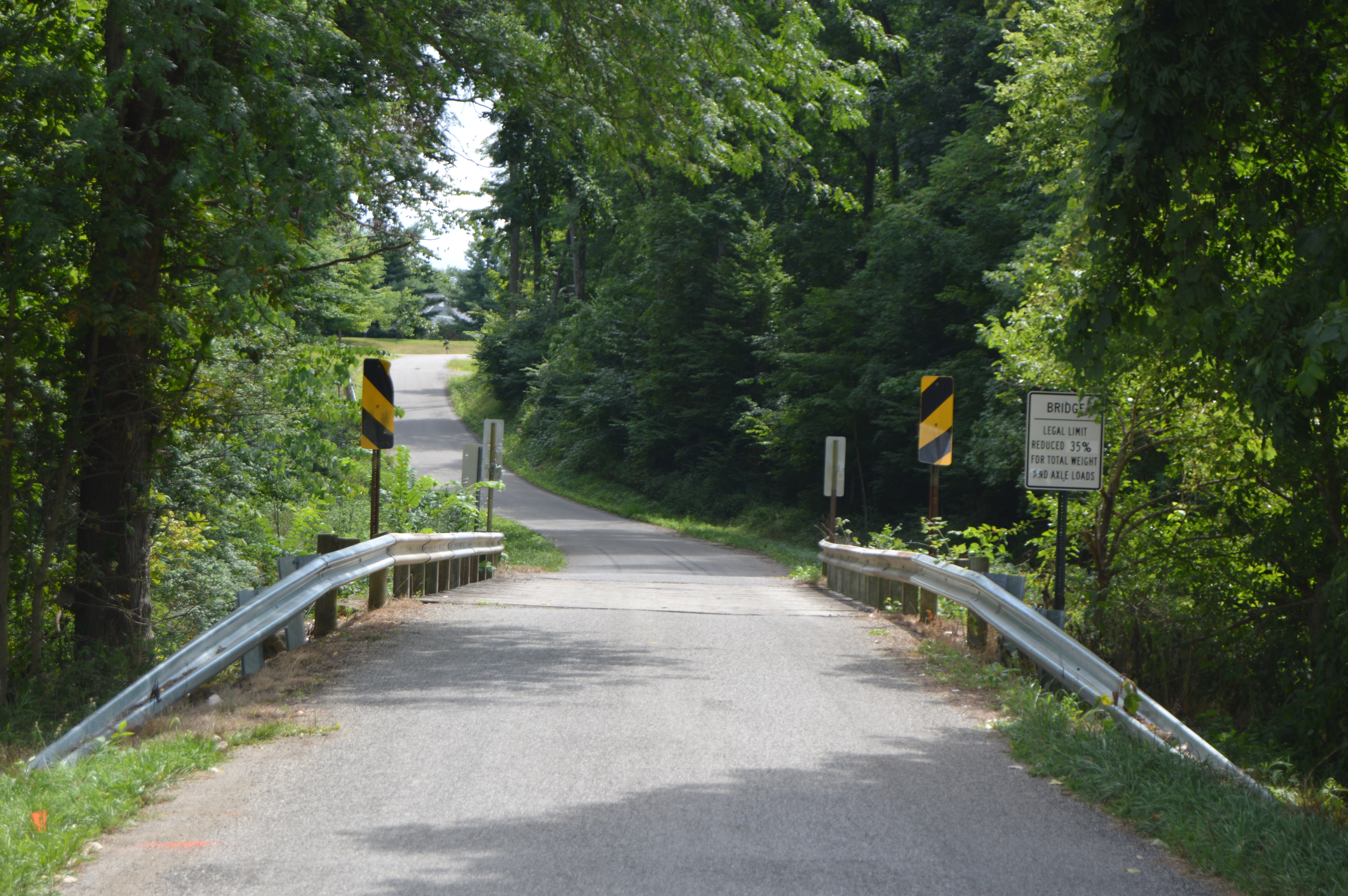 Overview from the north of the bridge that carries Dutch Cross Road over the Otter Fork of the Licking River, east of Hartford, in western Bennington Township, Licking County, Ohio, United States. Note the unusual wooden deck — the deck and its supports were originally part of the Belle Hall Covered Bridge, which was built in 1879; listed on the National Register of Historic Places in 1976, it collapsed in 1999, and the remaining components were salvaged for re-use in what is otherwise a contemporary girder bridge.